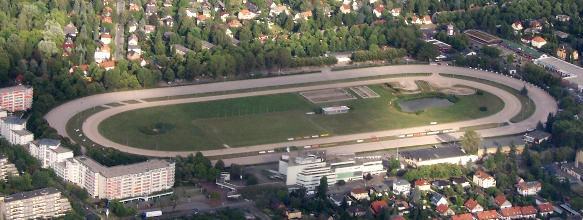 The Turf Berlin Mariendorf, aerial view, August 2008